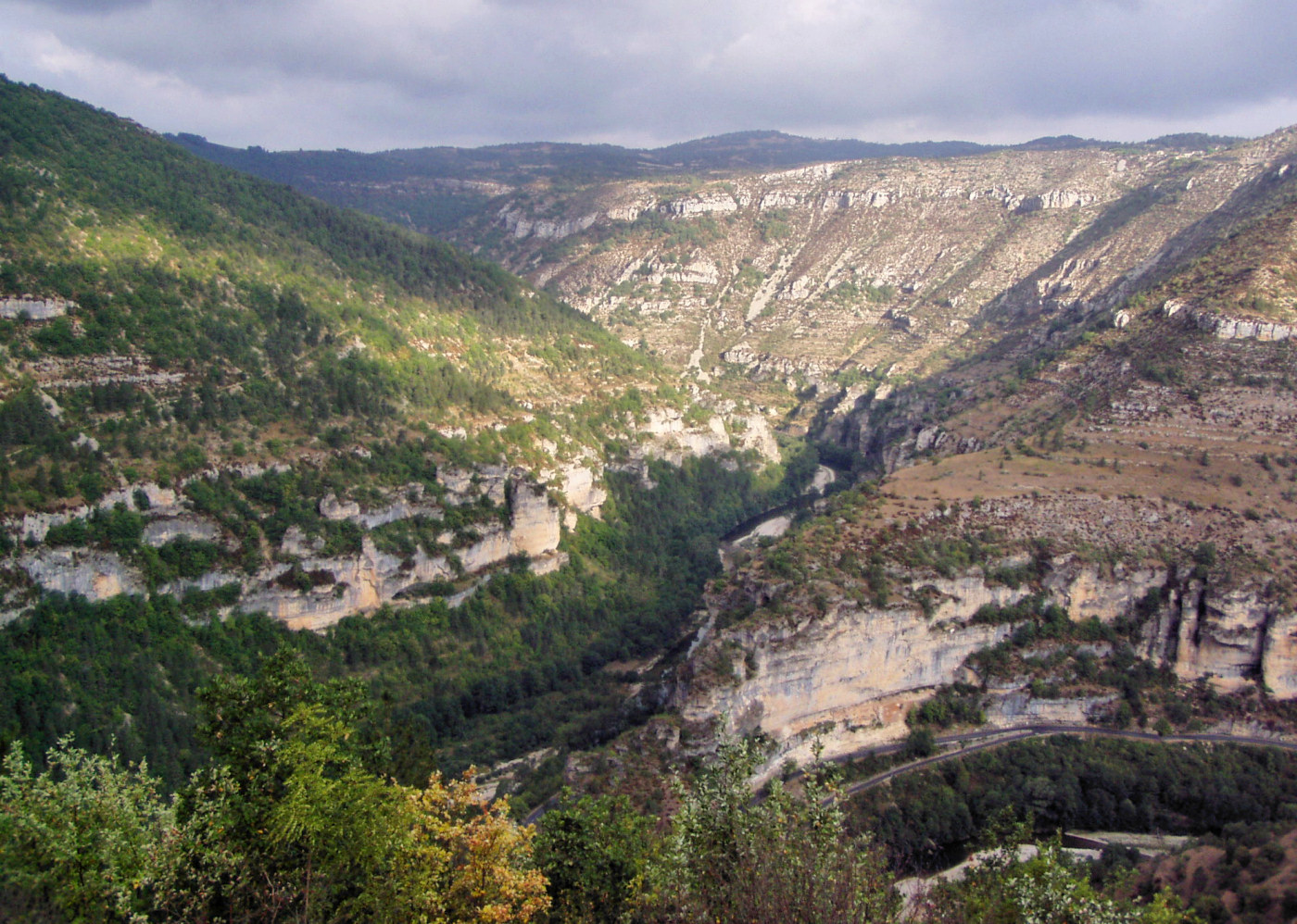 Canyon of Tarn River, Cévennes National Park, France.